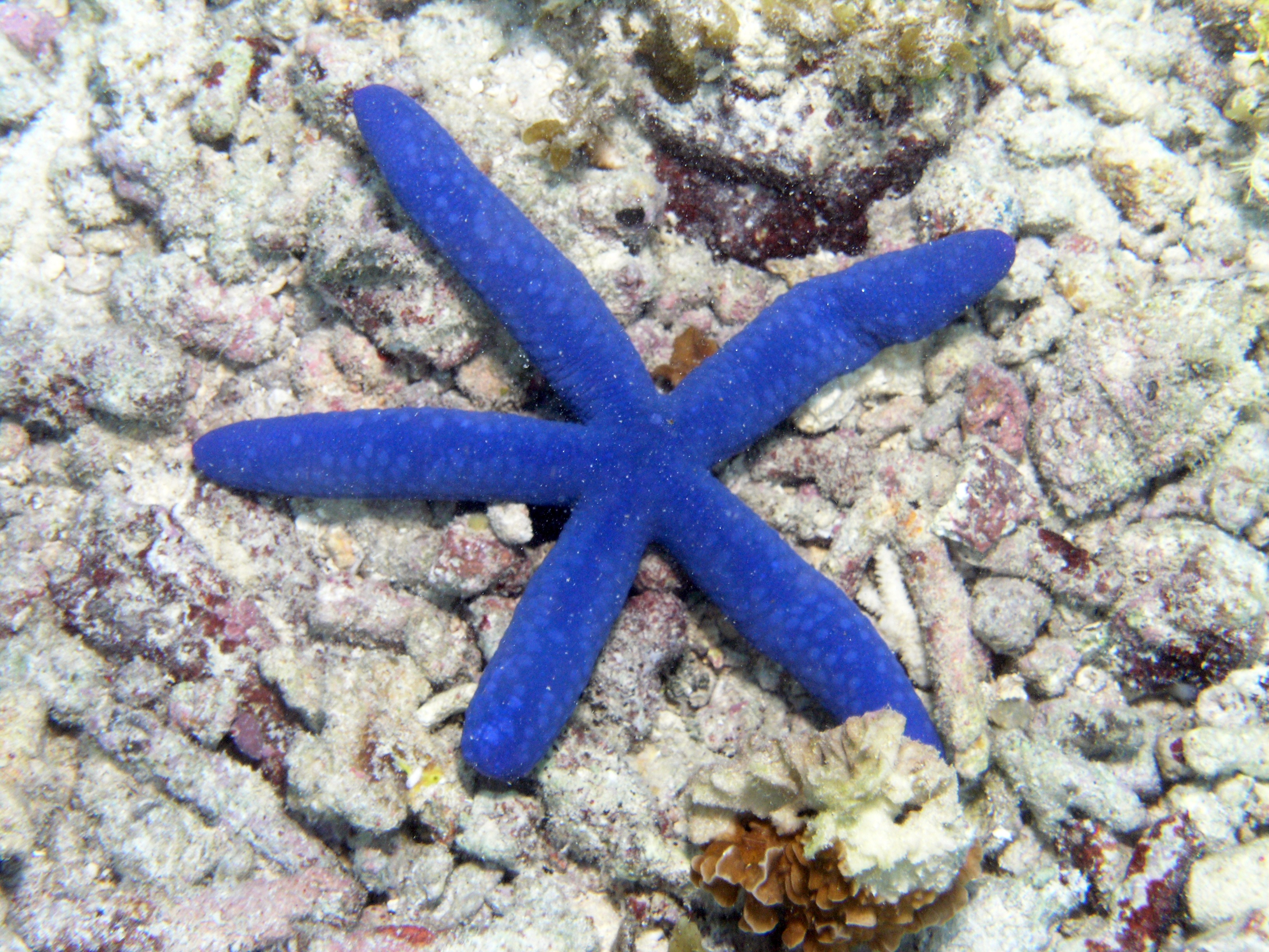 Blue sea star (Linckia laevigata). Fiji.